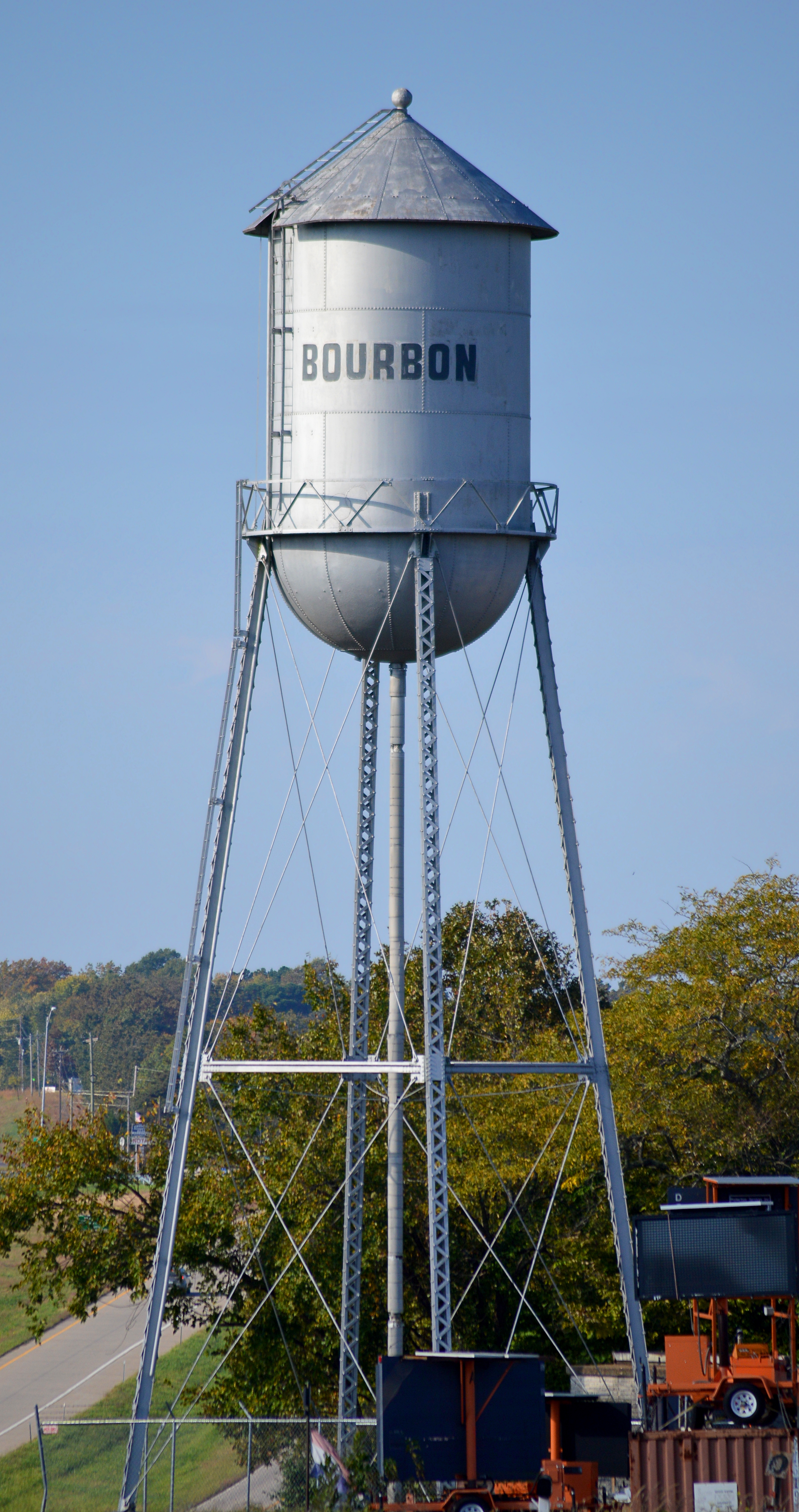 Historic water tower, no longer in service, in Bourbon, Missouri.